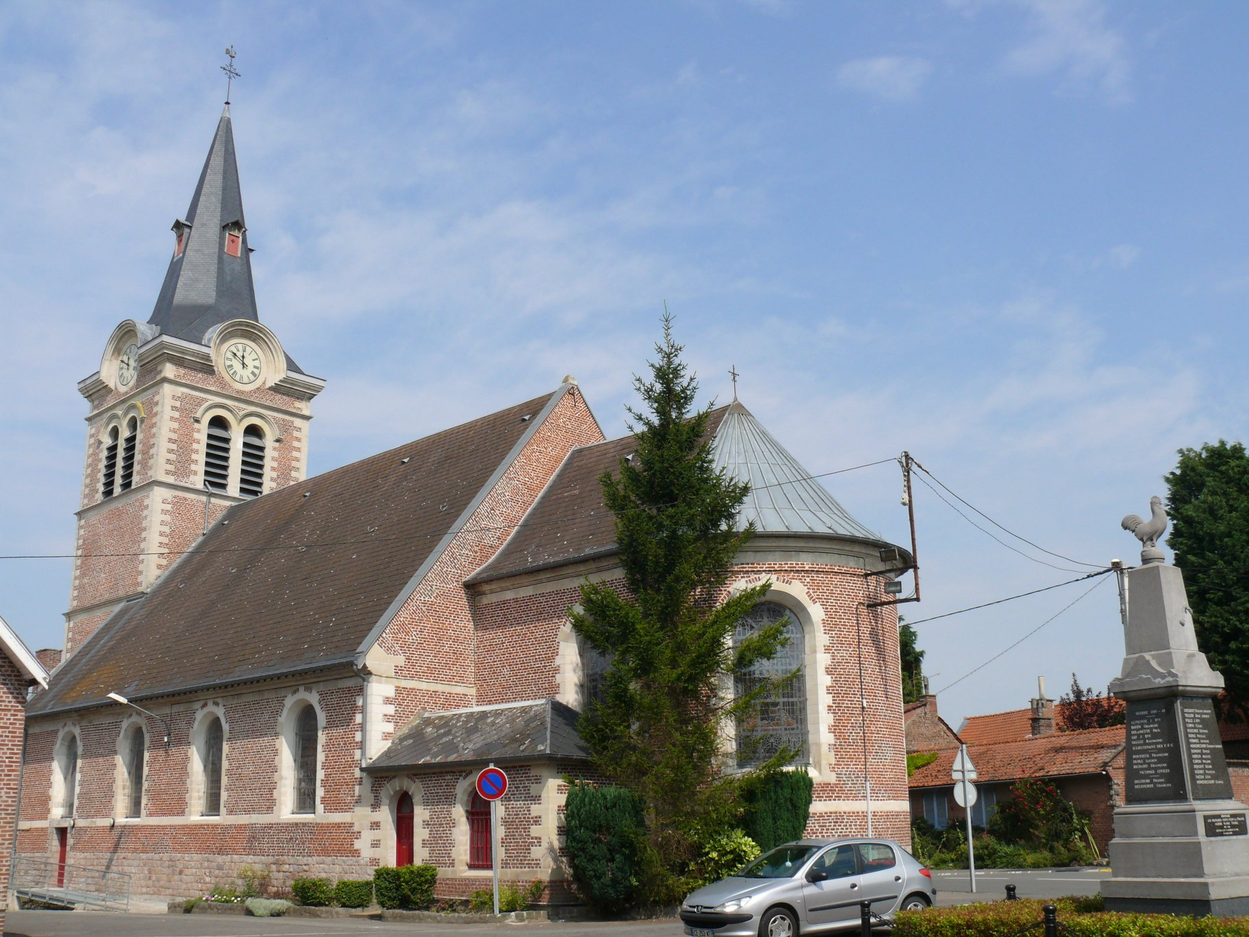 Saint-Amand's church of Aubigny-au-Bac (Nord, France).